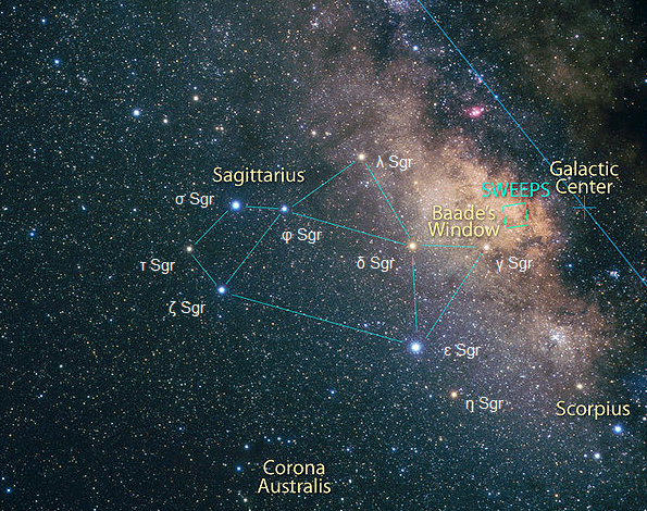 The SWEEPS target area is in the Sagittarius constellation, toward the center of the Milky Way galaxy. The target area is a rare transparent window to the distant central bulge stars located approximately 27,000 light-years away from Earth. The location of the SWEEPS area is indicated on this Milky Way image in blue.